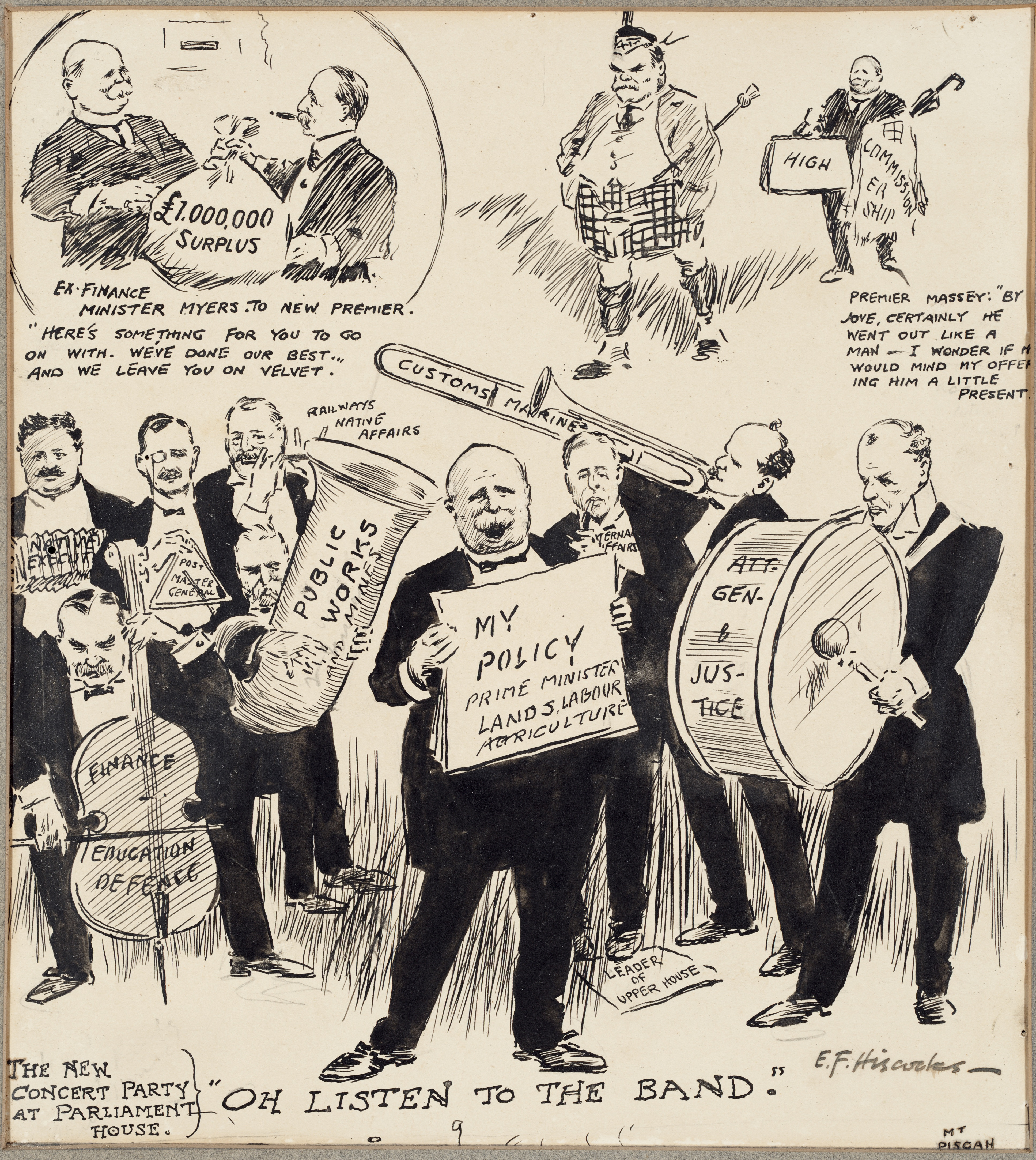 Oh, listen to the band; the new concert party at Parliament House. Shows Premier William Massey reading or singing "My policy" while his band of politicians plays drums, wind and string instruments. At the top left, the ex-Finance Minister Arthur Mielziner Myers hands over a bag of a million pounds surplus. At the top right Premier Massey looks at the figure of Thomas Mackenzie, and reflects: "By Jove, certainly he went out like a man - I wonder if he would mind my offering him a little present". Massey's band of politicians includes: James Allen on cello (Minister of Finance, Education and Defence), Maui Pomare on accordion (Native Executive), Robert Heaton Rhodes on triangle (Postmaster General), William Herbert Herries on piccolo (Minister of Railways and Native Affairs), William Fraser on tuba (Minister of Public Works and Mines), Francis M B Fisher on slide trombone (Minister of Customs and Marine), Francis Dillon Bell on oboe? (Minister of Internal Affairs), and Alexander Lawrence Herdman on drum (Attorney-General and Minister of Justice).